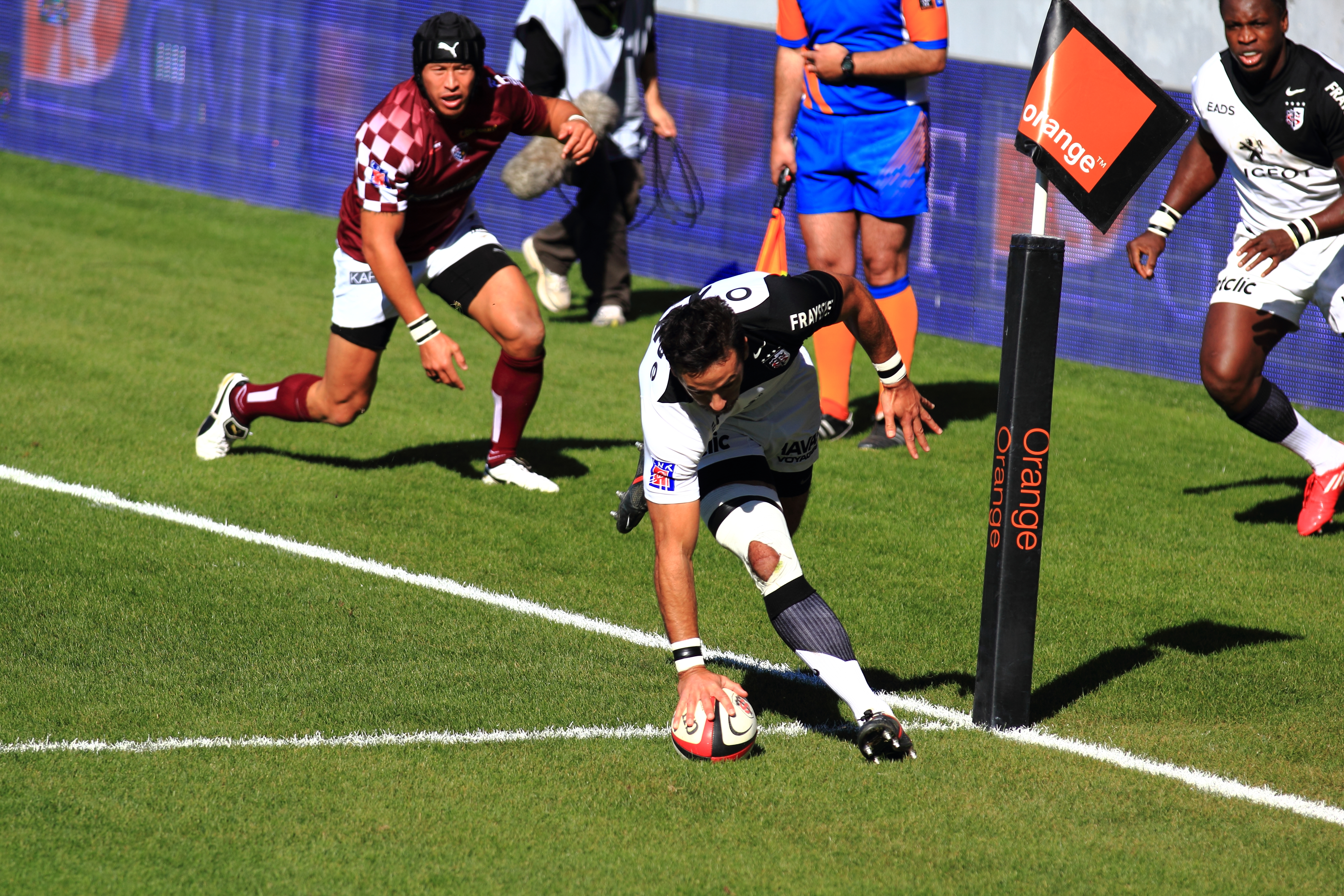 Clément Poitrenaud grounding the ball in the goal area during a TOP 14 match between Stade toulousain and Union Bordeaux-Bègles in Toulouse on October 22nd, 2011. The try was not awarded by the referee for a forward pass.